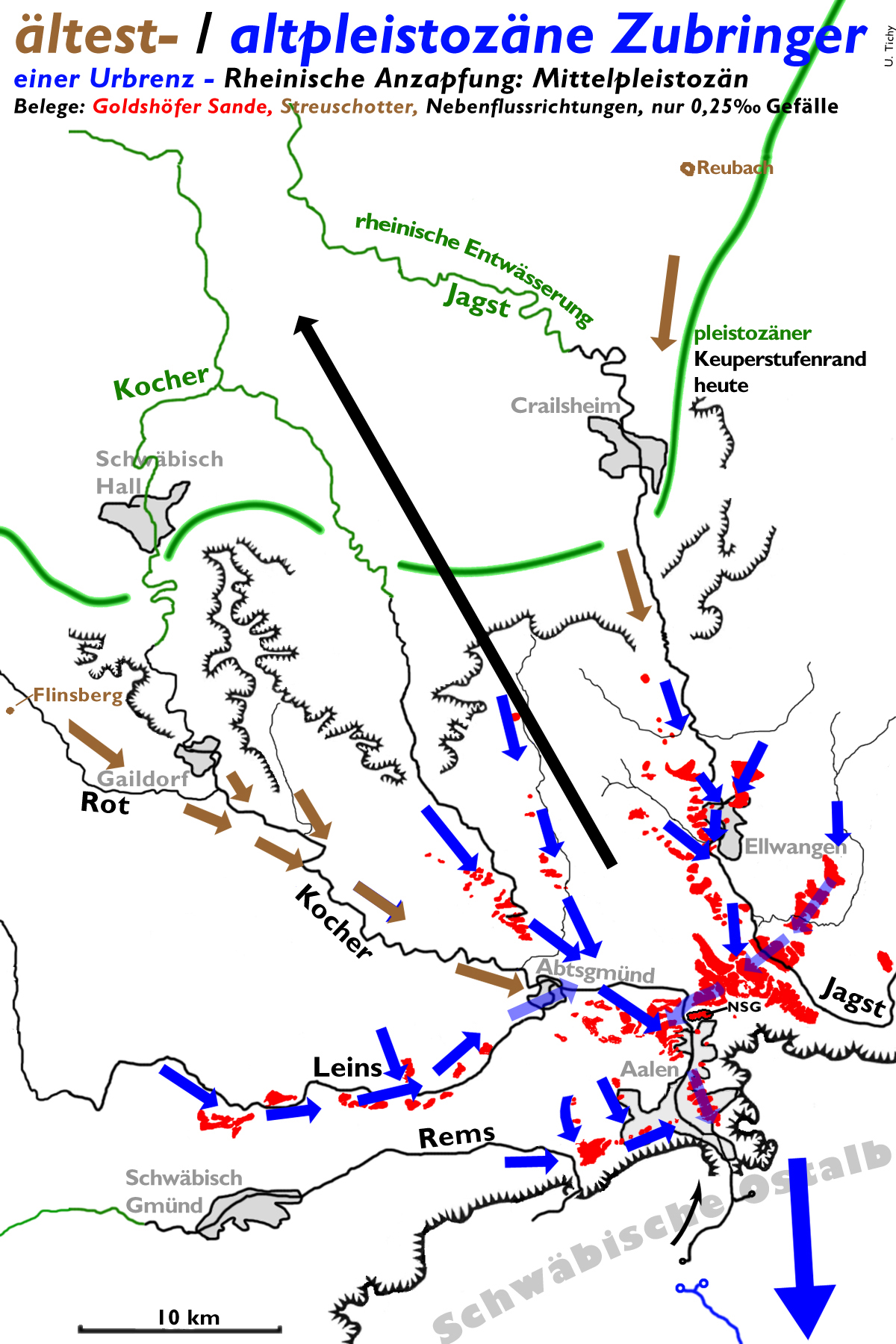 System of Pleistocene km-wide braided rivers, flowing with a very gentle gradient. Research on the not cemented sediments called "Goldshöfer Sande" and on Keuper-Flintstones, found in quarries and highest fluvial terraces of the Schwäbisch-Fränkische Waldberge and around Aalen’s river gate to the Swabian Alb verified that the contemporary rhenish drainage of the northeastern Schichtstufenland was all danubian across the Swabian Alb until it was captured in Middle Pleistocene.